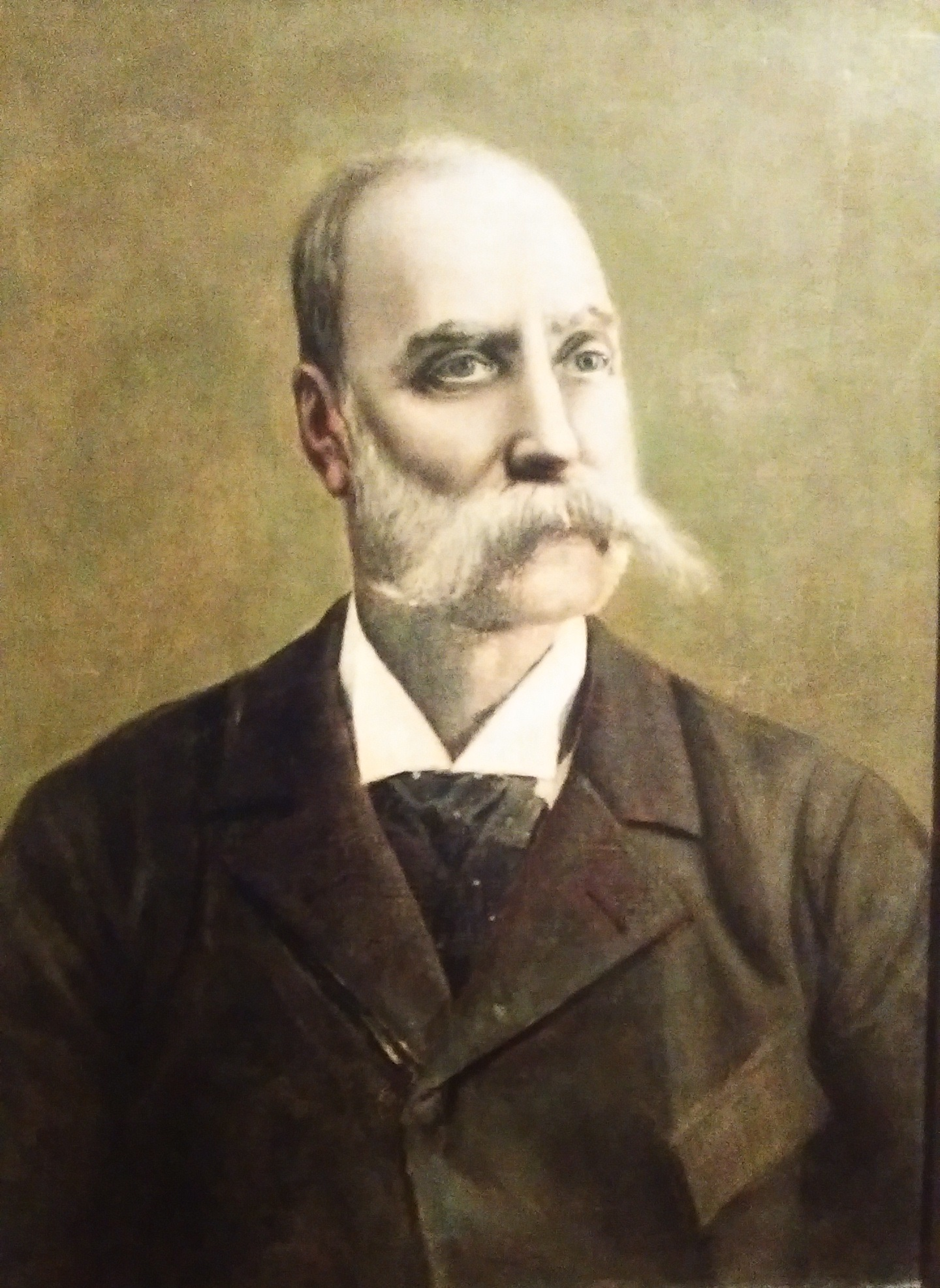 A portrait of bulgarian revolutionary Dr Georgi Mirkovich by Dimitar Dobrovich